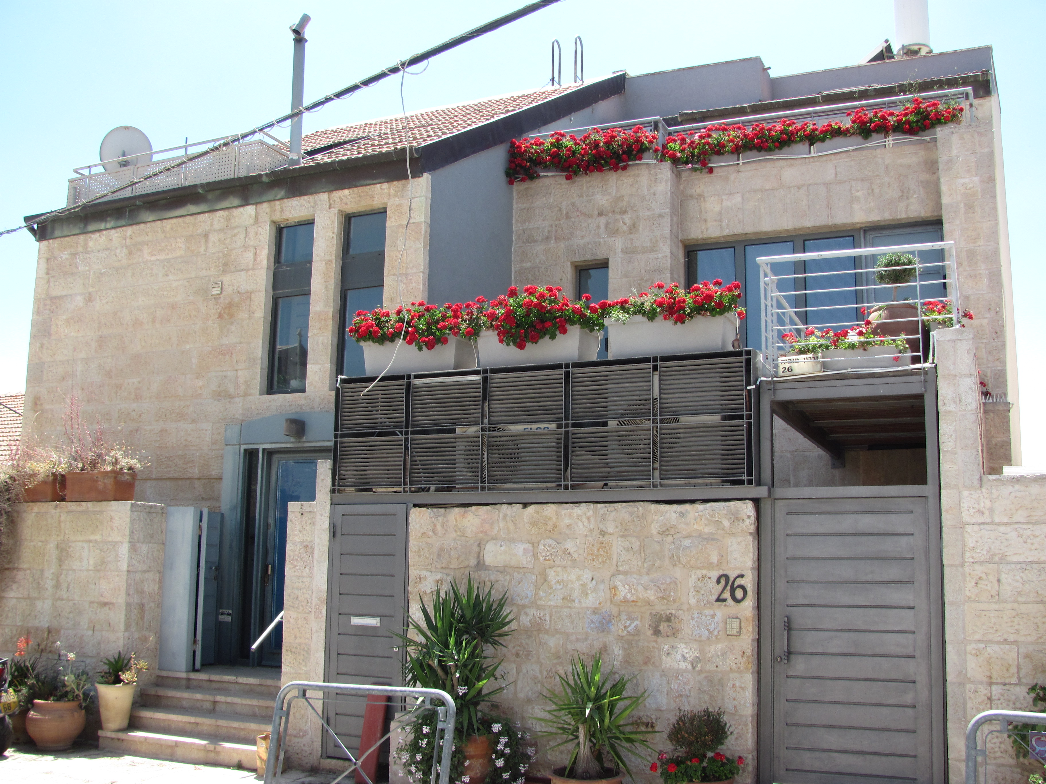 Yefe Nof House, 26 Zikhron Tuvya Street, Jerusalem, Israel